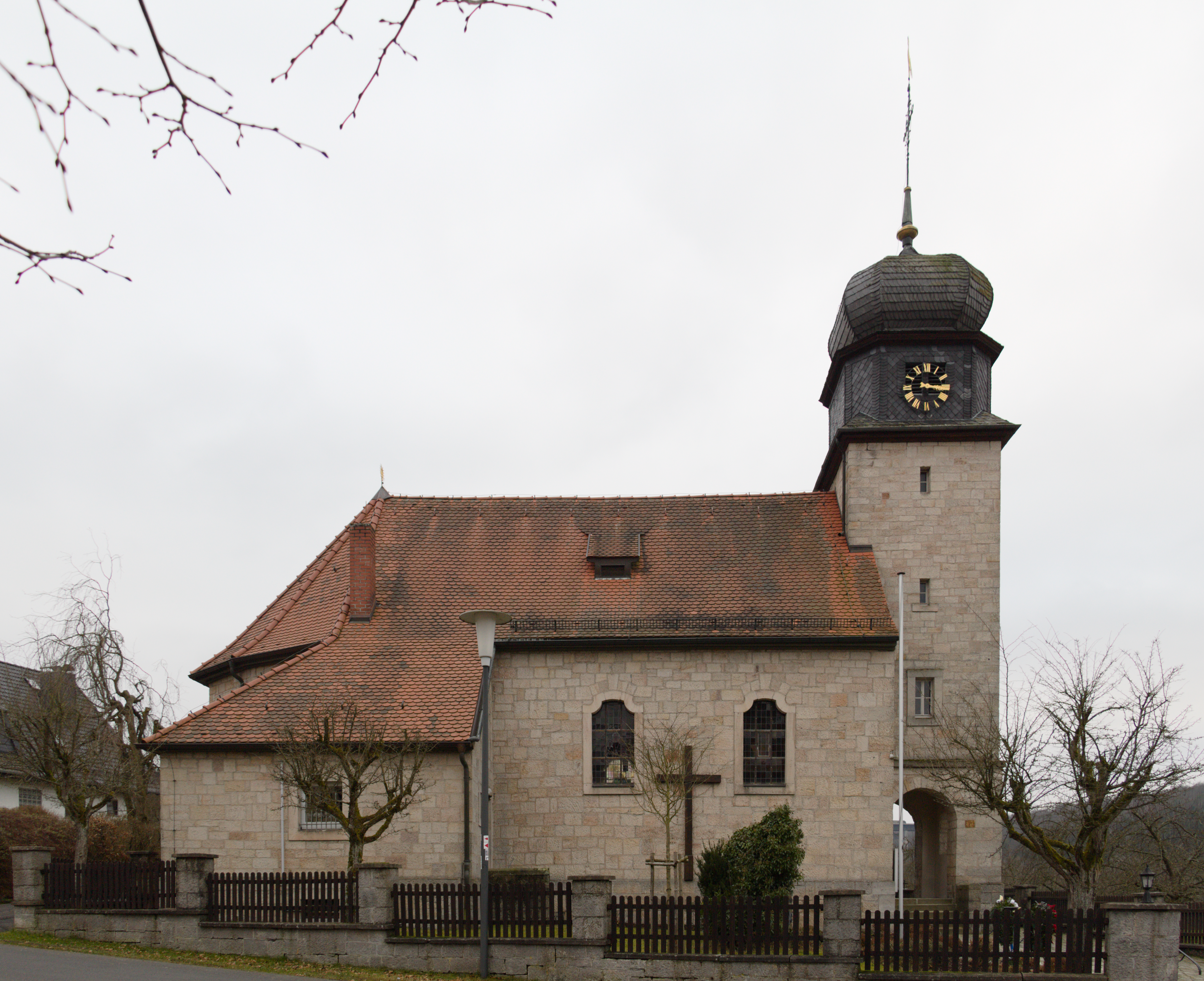 Catholic Church in Speicherz, Motten, Bavaria, Germany